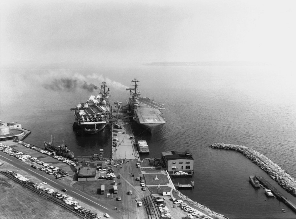 Aerial view of the carrier pier at the U.S. Naval Air Station Quonset Point, Rhode Island (USA), 23 September 1970. It shows USS Intrepid (CVS-11), left and USS Wasp (CVS-18), right.